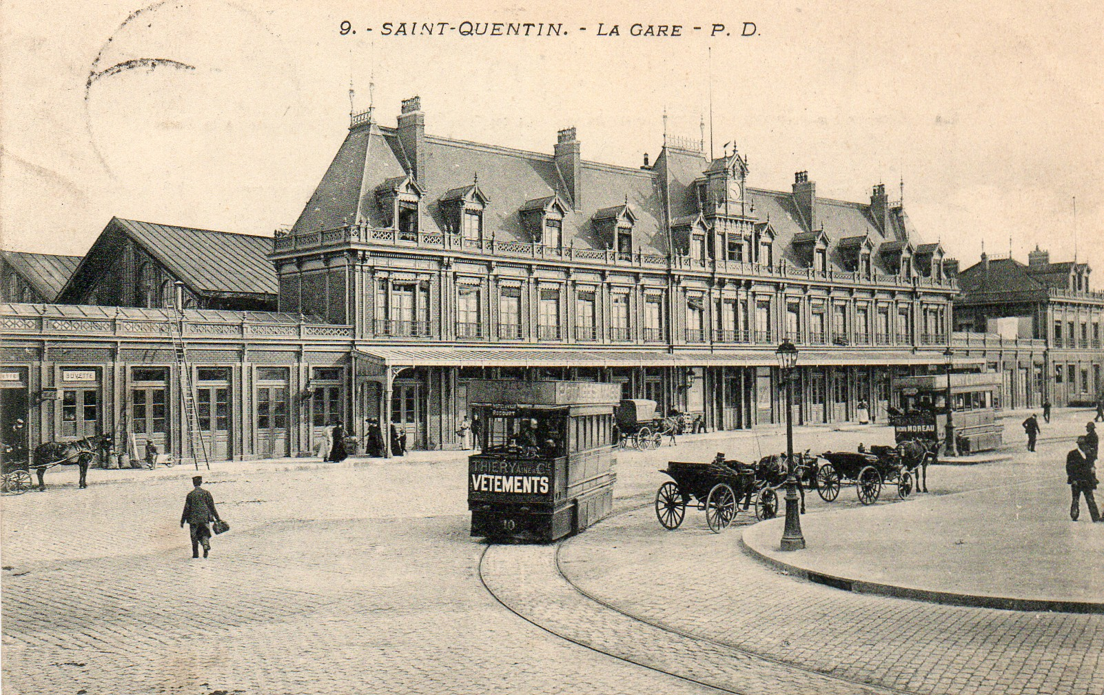 Mekarski compress air tram in Saint-Quentin (Aisne, France) around 1906. Personal collection: vintage postcard